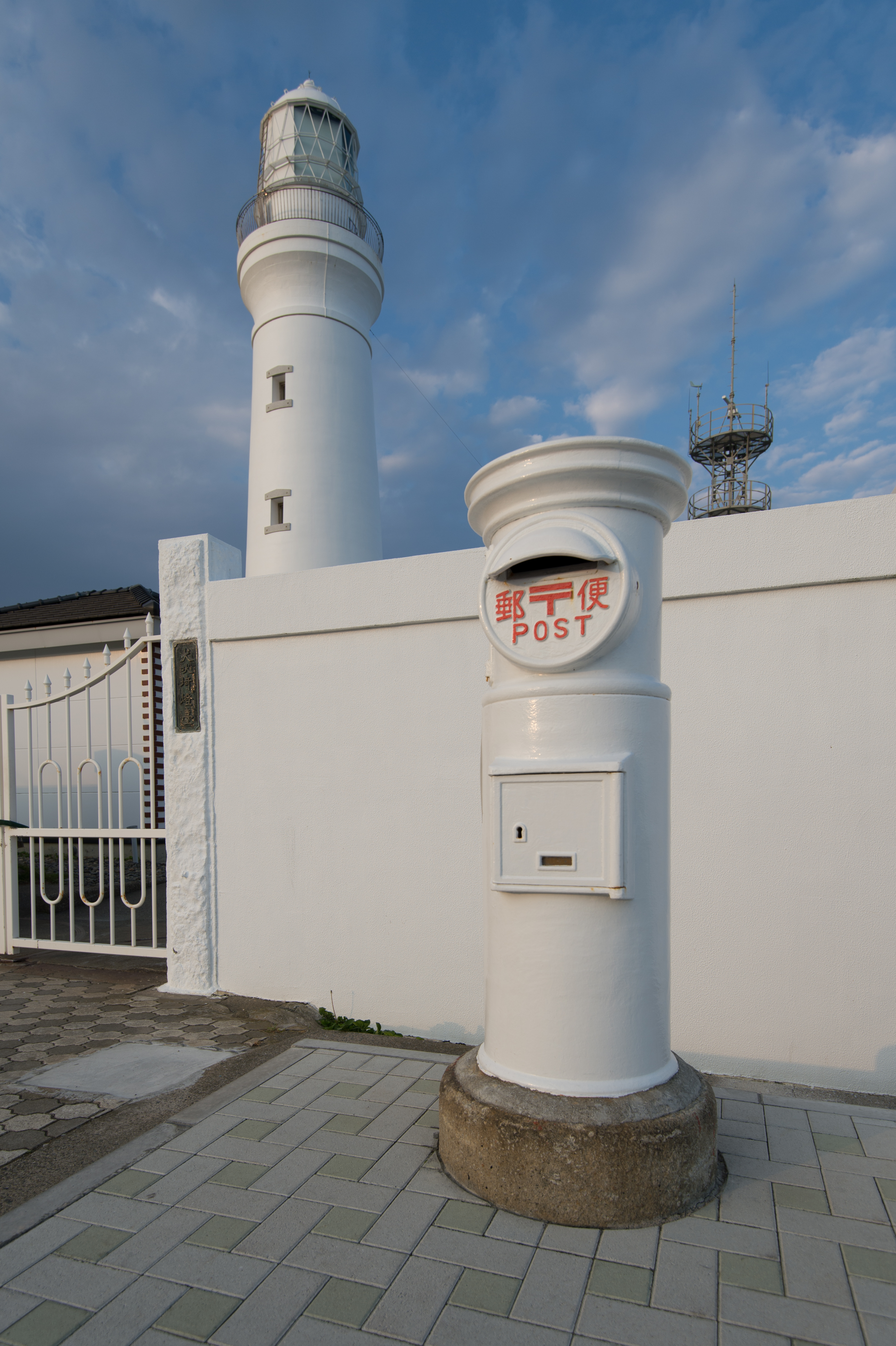 The post right front of Inubosaki lighthouse is white where most of post in Japan are red. 犬吠埼灯台のすぐ前にある郵便ポストは何と白い色なのです。珍しいですね。 [ Nikon D4, Nikon AF-S NIKKOR 16-35mm f/4G ED VR, 19mm, f/5.6, 1/320sec, ISO100, Lightroom 4.4 ]